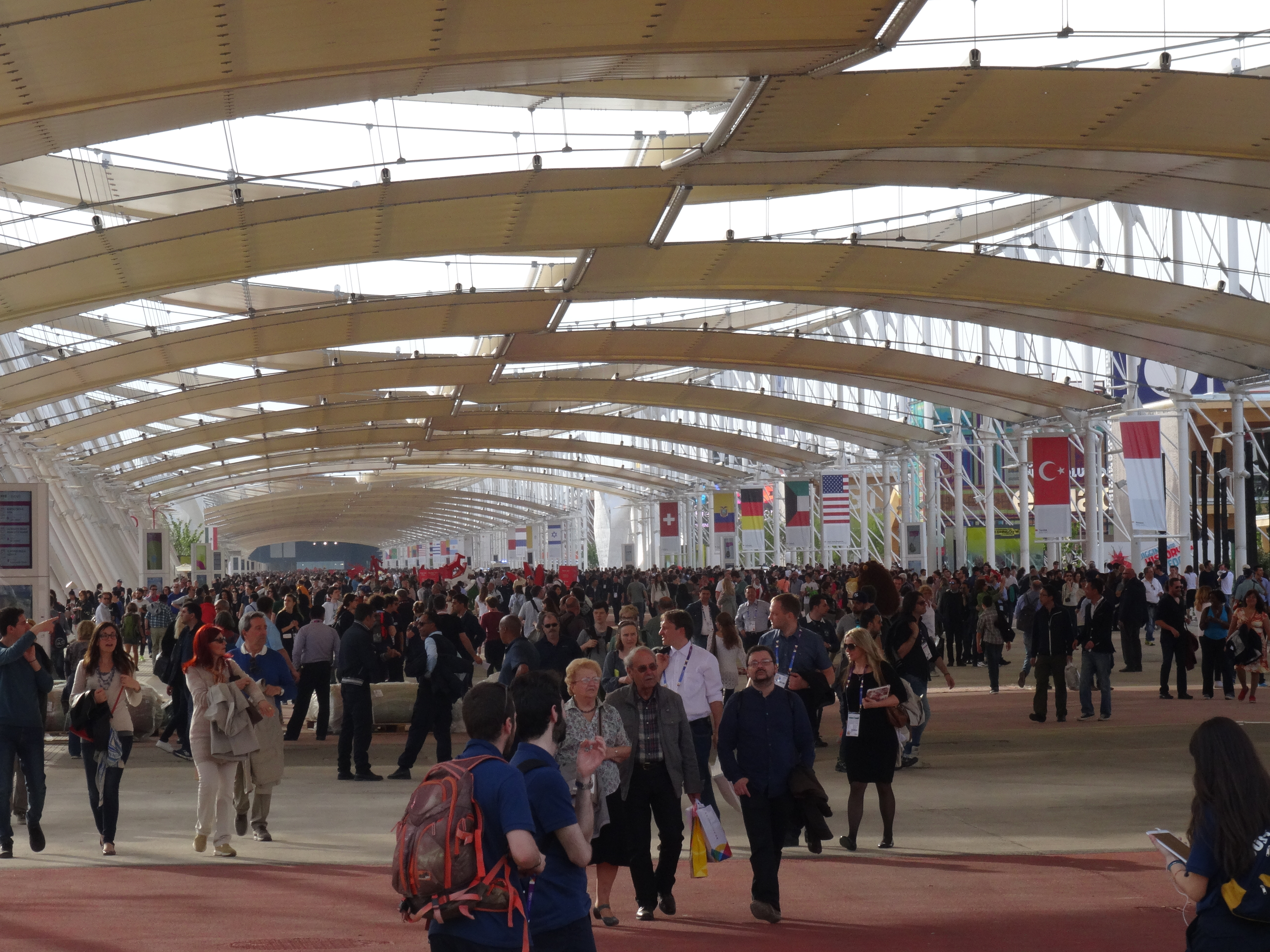 Expo 2015, Milan, Italy.